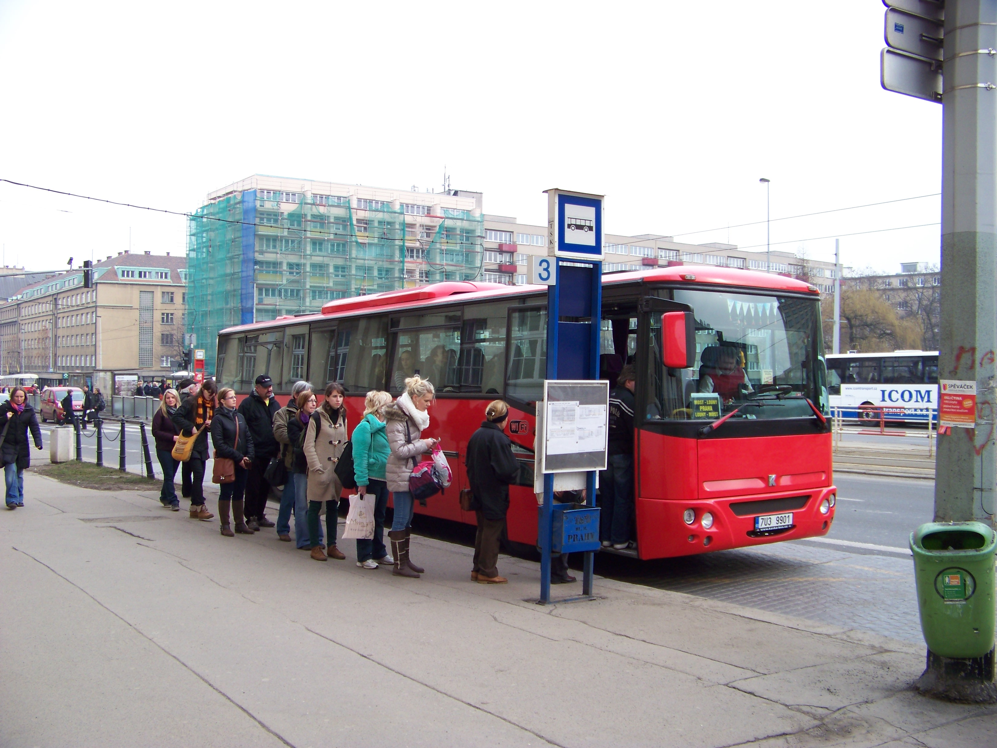 Prague-Dejvice. Evropská street, bus terminal Dejvická. A bus of Autobusy Kavka. - OpenStreetMap(Info)